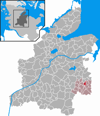 Locator maps of municipalities in Schleswig-Holstein - District Rendsburg-Eckernförde